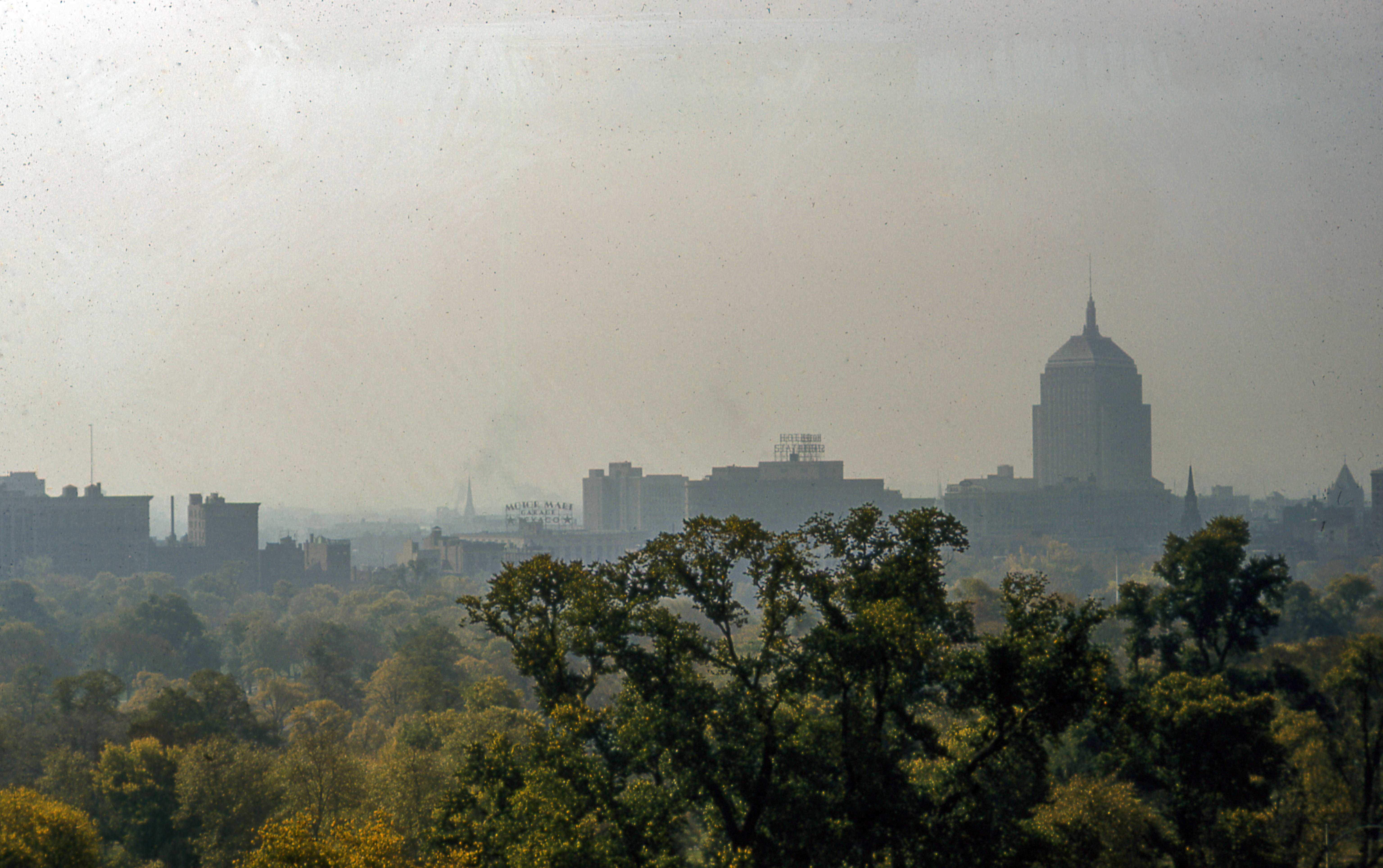 The Berkeley Building, or Old John Hancock Tower, in 1956, prominent in the skyline of Boston at that time. Note the smog as well, prior to modern environmental regulation. Slide developed October 17, 1956; foliage would indicate photo was taken in the months preceding.